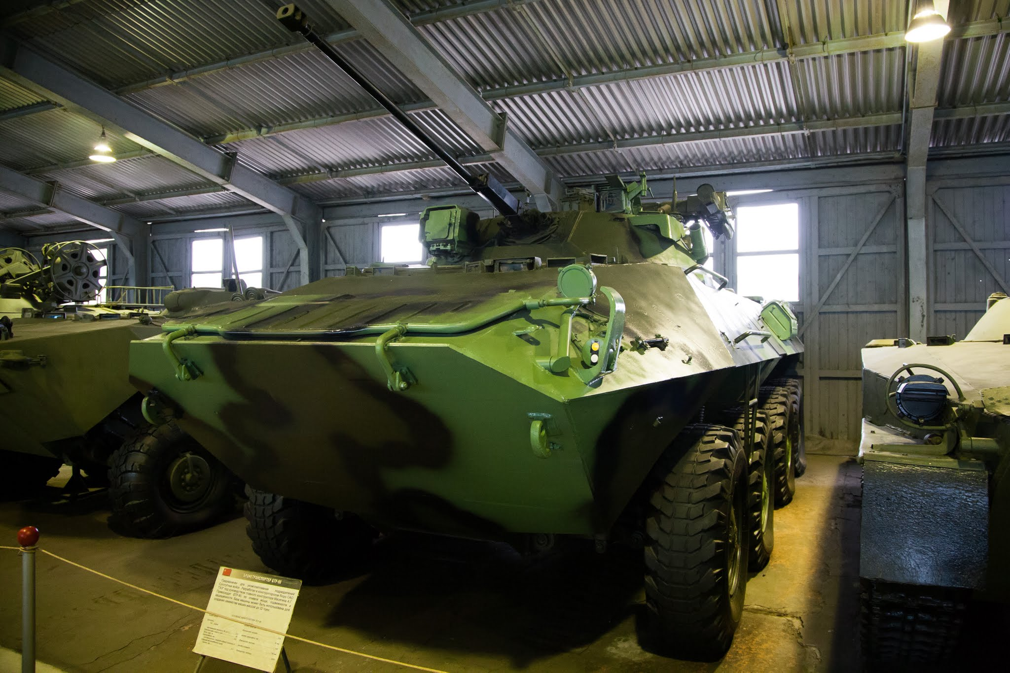 BTR-90 in the Tank Museum in Kubinka.